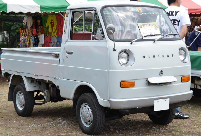 Mitsubishi Minicab